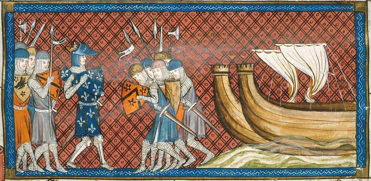 Detail of a miniature of Philip Augustus arriving in Palestine.